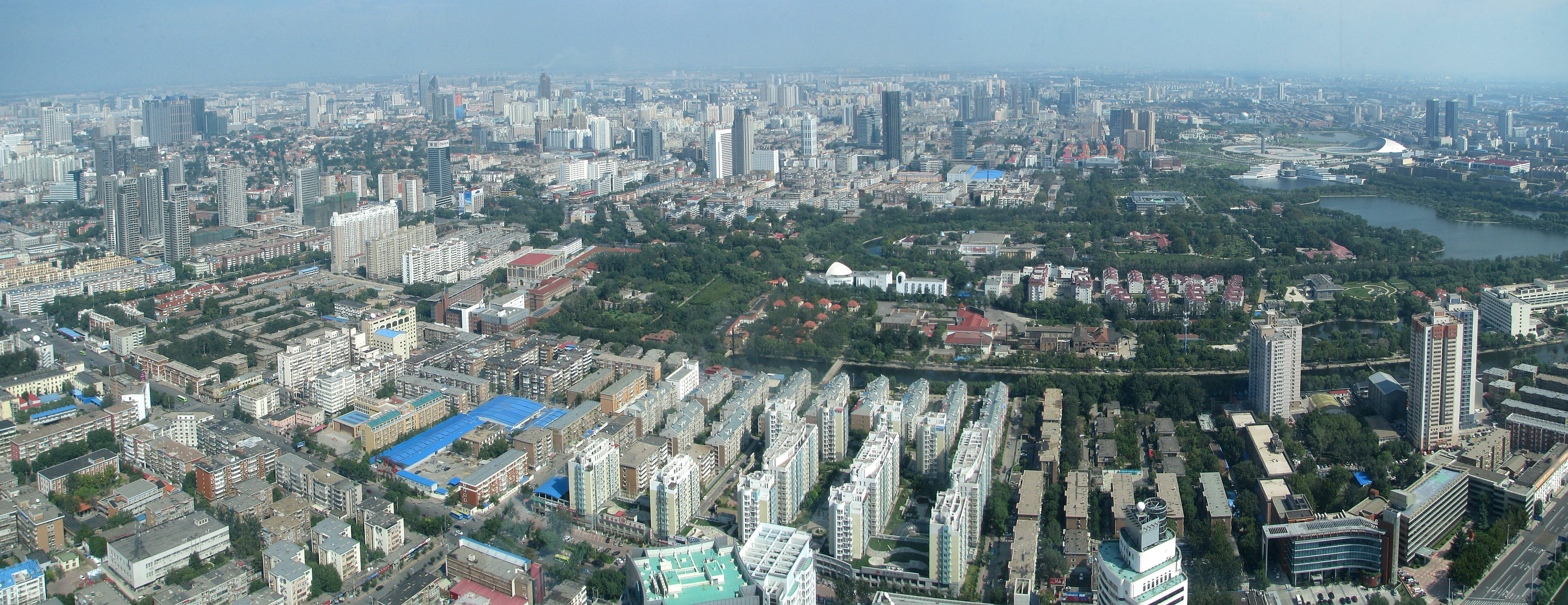 Panoramic view from Tianjin TV Tower, direction East(small, lowres)